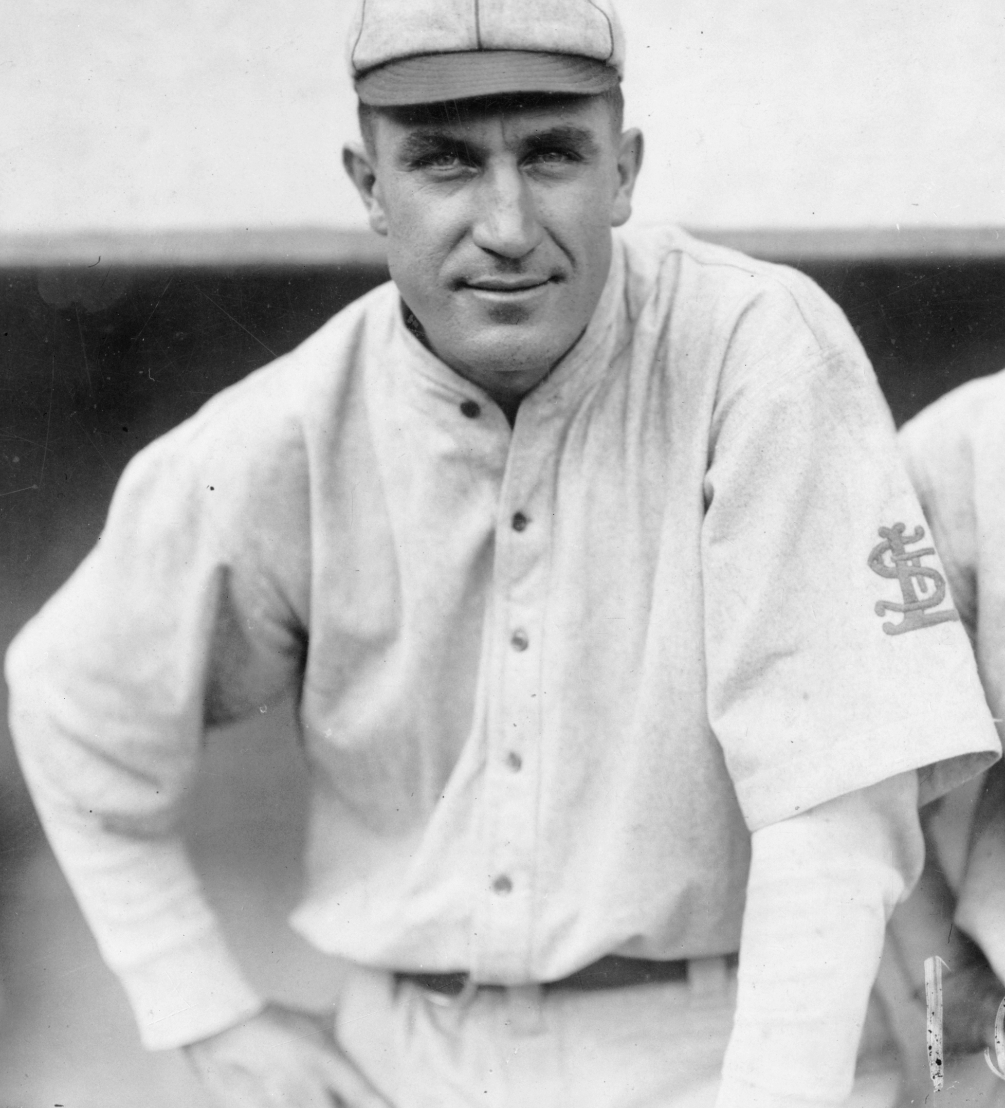 Ed Konetchy, St. Louis Cardinals baseball player, half-length portrait, standing, facing front, wearing uniforms. Cropped from original to single out Konetchy.